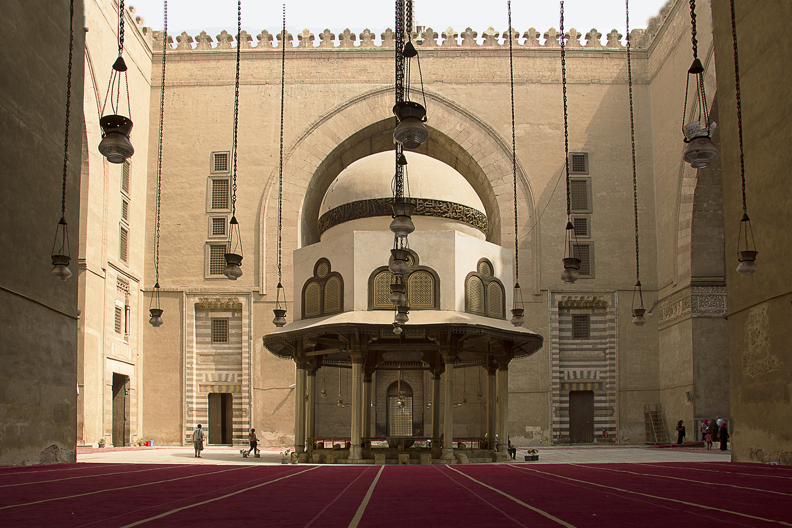 Mosque-Madrassa of Sultan Hassan in Cairo, Egypt